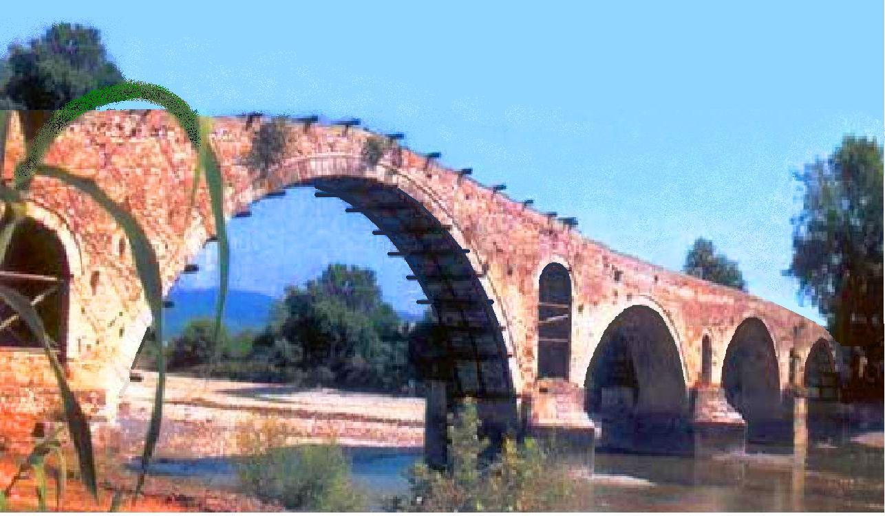 Restoration works of the Bridge of Arta (1982)